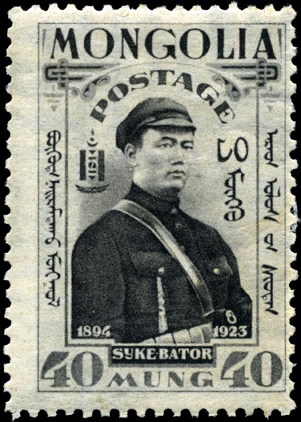 Mongolia 40m stamp of 1932. Dedicated to the 10th anniversary of the Mongolian Revolution of 1921, they are part of a set of 13 with values of 1, 2, 5, 10, 15, 20, 25, 40 and 50 mung. and 1, 3, 5, and 10 tugriks.